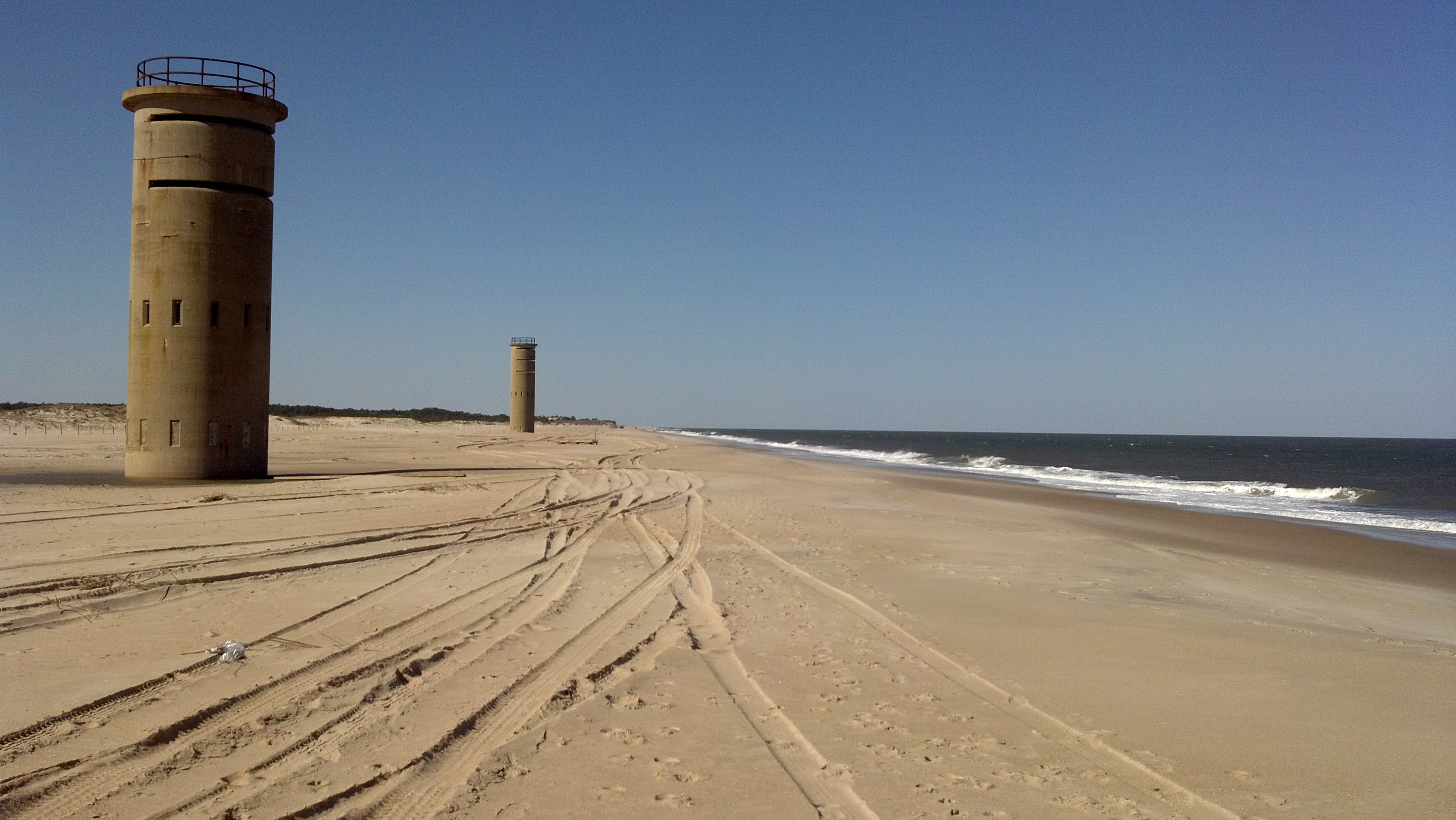 Looking north